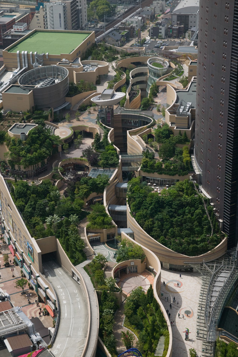 Namba Parks 'green' transit-oriented development in Osaka, Japan, designed by The Jerde Partnership, and completed in two phases - phase 1 (retail/park podium and office tower) in 2003; and phase 2 (retail/park extension, cinema and residential tower) in 2007.